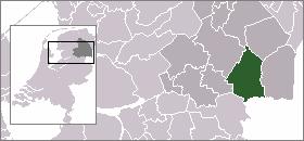 Location of Coevorden